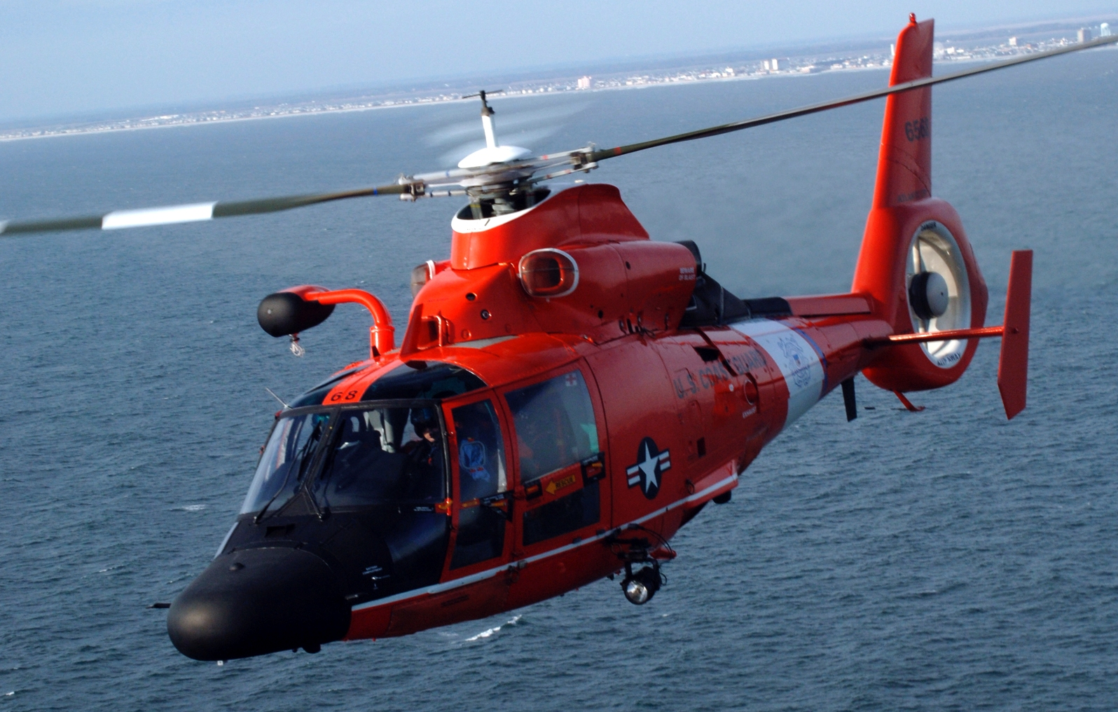 MH-65C Dolphin helicopter in flight.